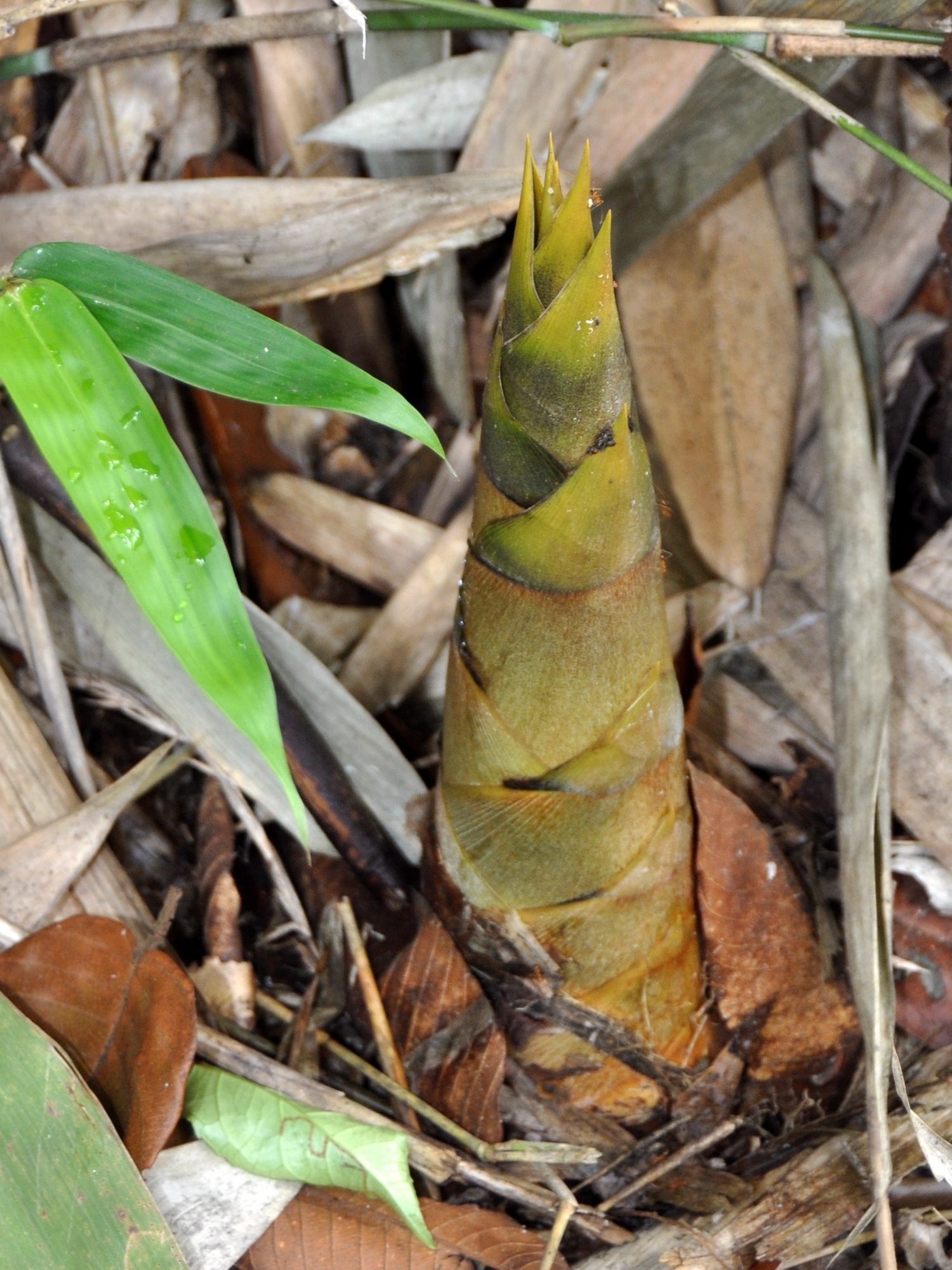 Sacred Bali bamboo, Schizostachyum brachycladum young shoots. From Bogor, West Java, Indonesia.